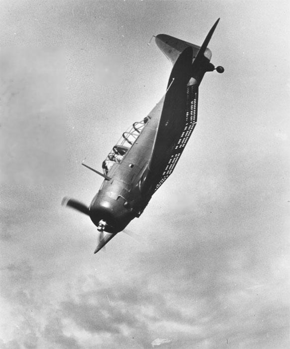 A U.S. Army Air Force Douglas A-24 in flight, circa 1942.